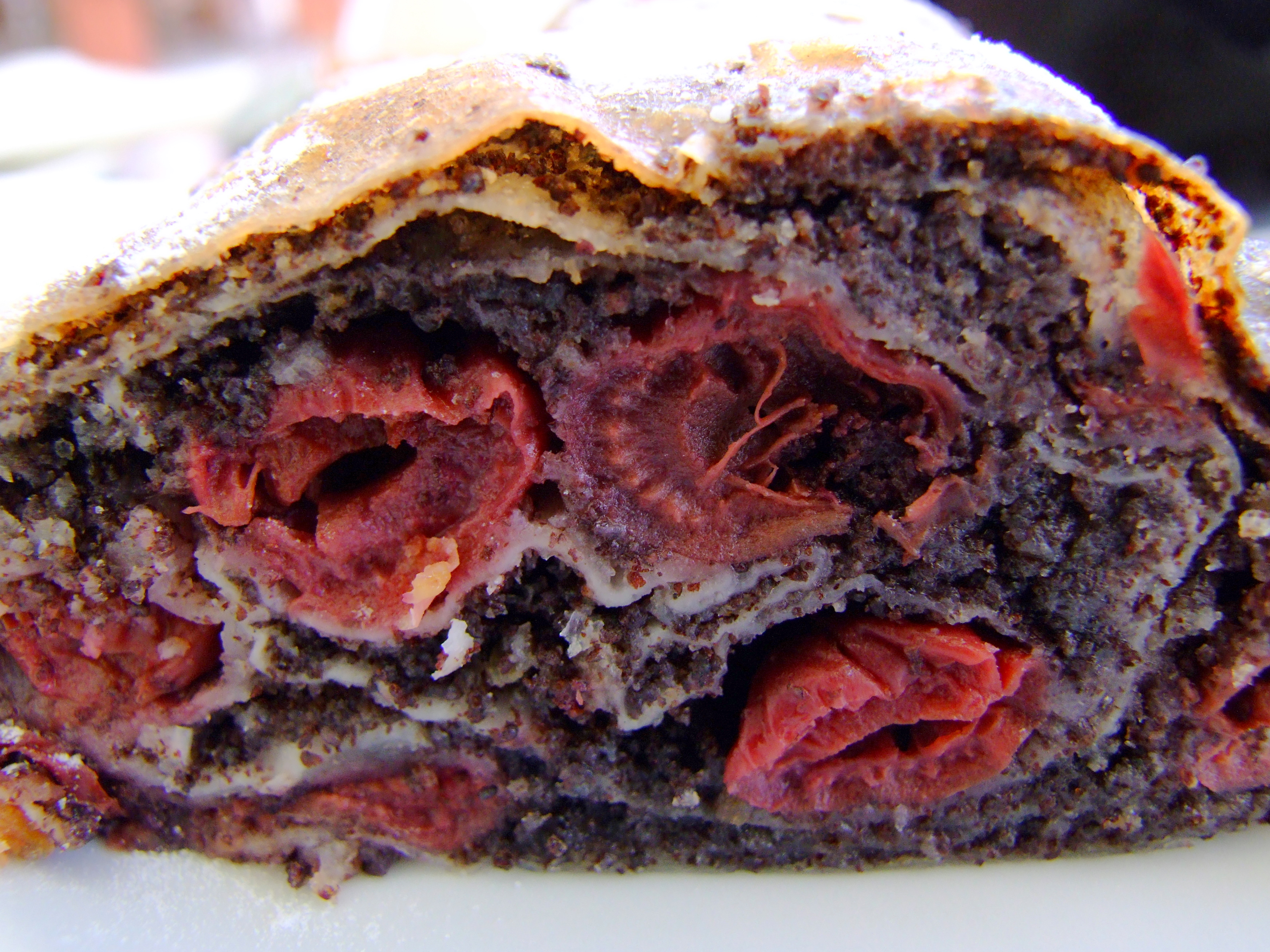 Cherry and poppy seed strudel, Cafe Grande, the main square in Bratislava